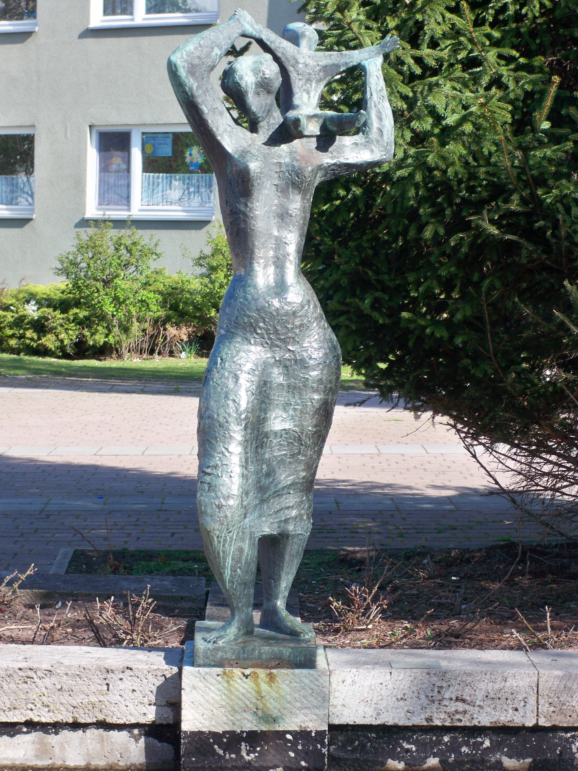 Mother and Child by Peter Szaif, 1958, in Wolfsburg, Germany